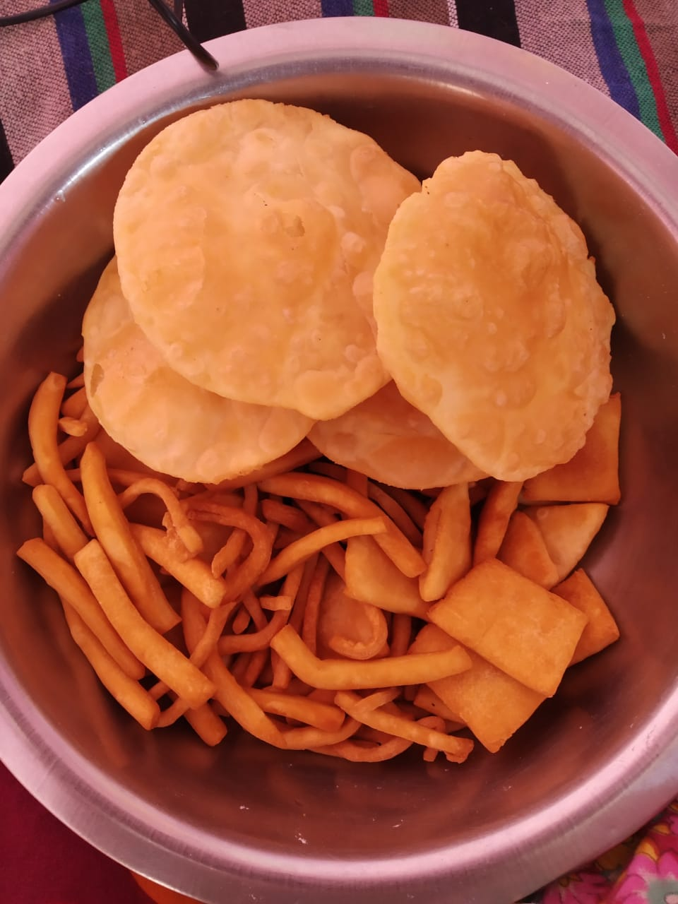 this is a varities of food.